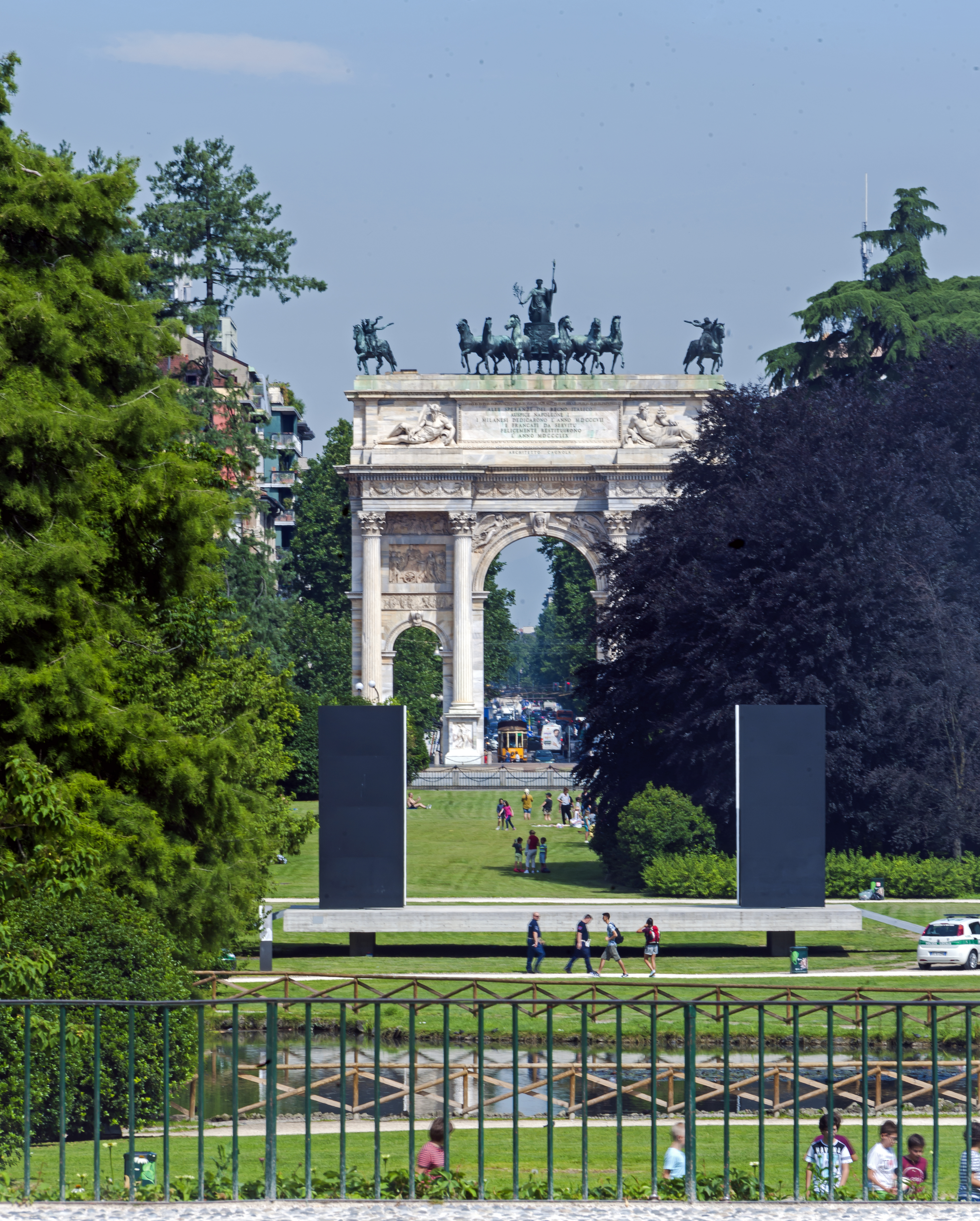 Arco della Pace seen from Piazza del Cannone through Parco Sempione, Milan